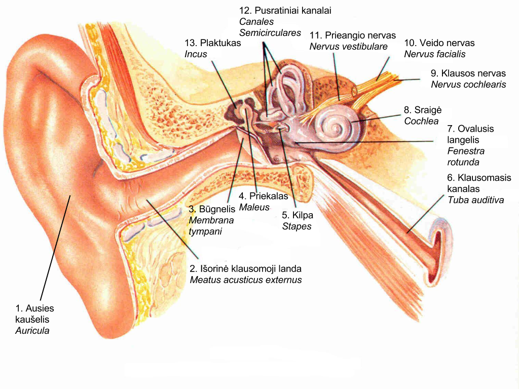 The structure of earLietuvių: Ausies sandara